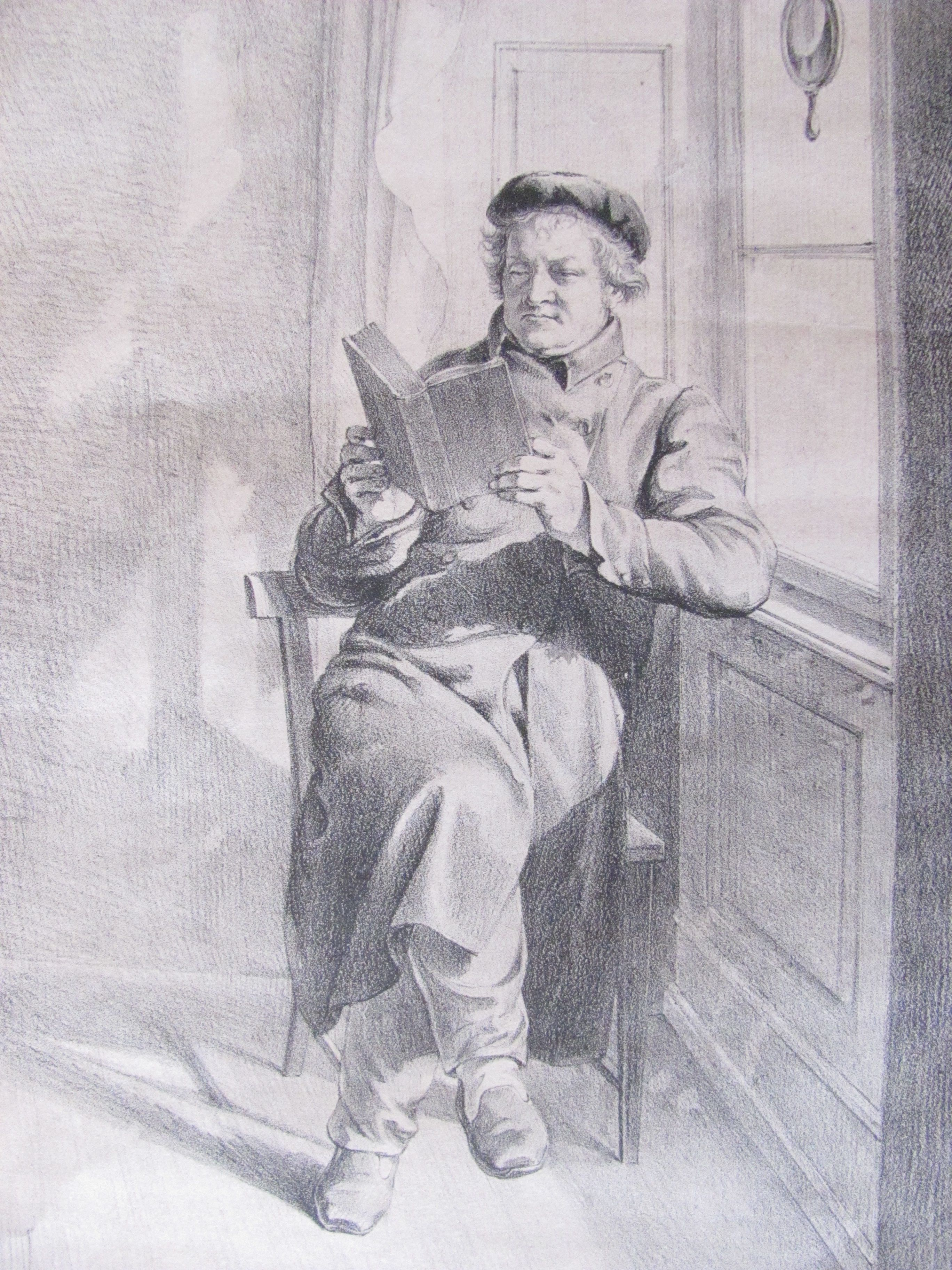 Julius Eugen Ruhl, probably self-portrait